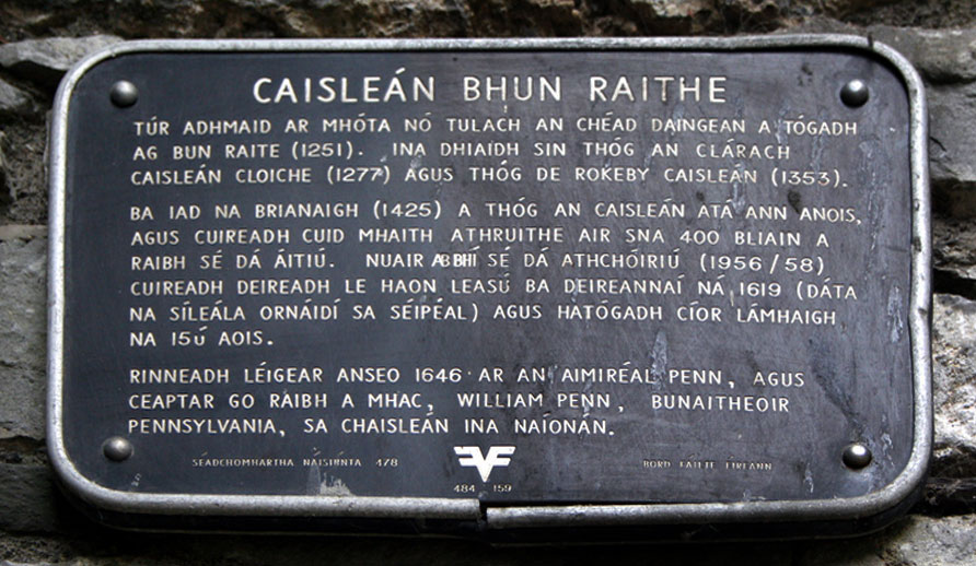 A sign in Irish for Bunratty Castle, a large tower house in County Clare, Ireland. Text and translation below.